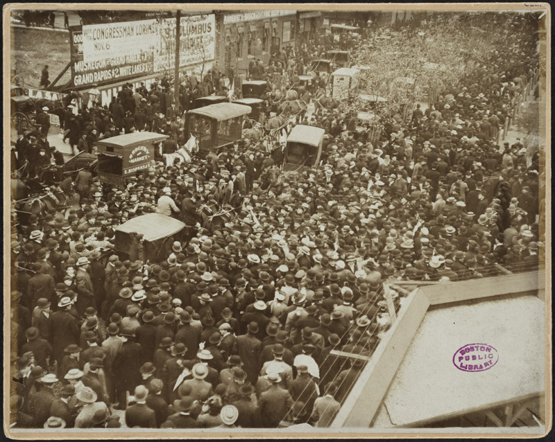 Accession No.: 06_06_000022 Title: Crowd outside South Side Park, 1906 World Series Caption: Gates closed at 12:30 2 hours before game called. Crowd outside with tickets can't get in. Creator: unidentified Date: 1906 Format: photograph Description: Scene before the sixth and final game of the World Series between the Chicago White Sox and Chicago Cubs, won by the White Sox four games to two. BPL Collection: McGreevey Collection BPL Department: Print Subject: Baseball--History World Series (Baseball) (1906) Chicago White Sox (Baseball team) Chicago Cubs (Baseball team) Sports spectators